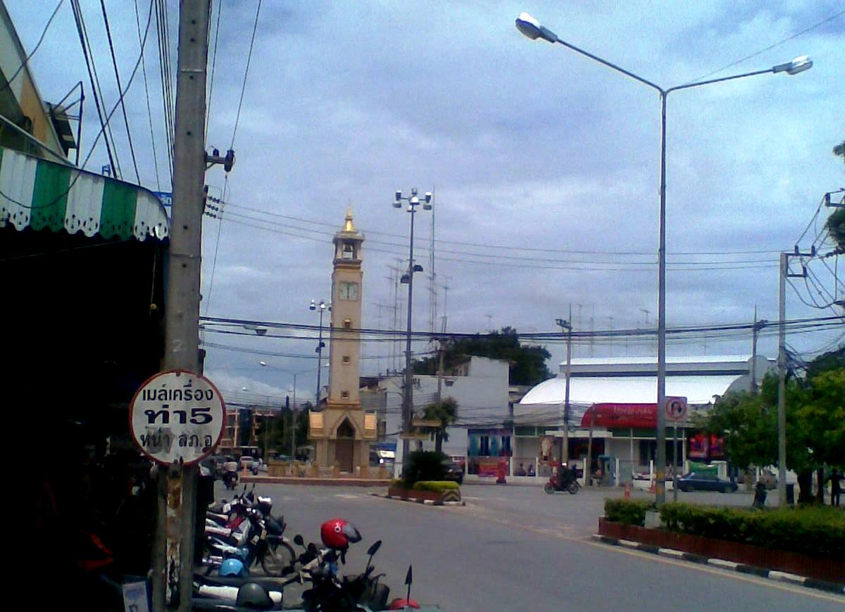 Post office square and clock tower in Ban Pong town